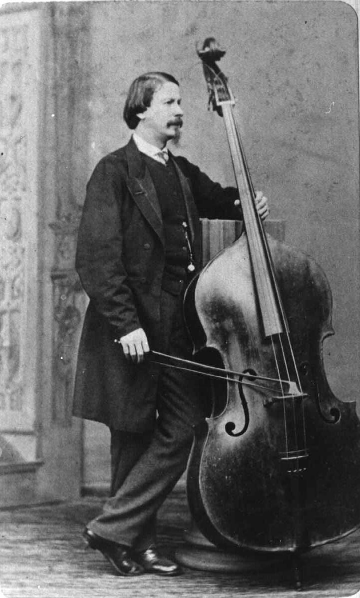 Portrait of the composer and double bass player Giovanni Bottesini (1821-1889) with his favourite double bass, built by Carlo Antonio Testore in 1716. Photo taken around 1865.